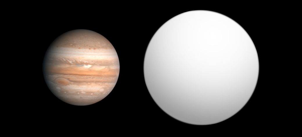 Comparison of best-fit size of the exoplanet 2M1207 b with the Solar System planet Jupiter, as reported in the Open Exoplanet Catalogue[1] as of 2015-11-14. ↑ Open Exoplanet Catalogue (2015-11-14). Retrieved on 2015-11-14.